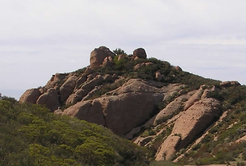 Boney Peak in the Circle X Ranch area of the Santa Monica Mountains National Recreation Area. Viewed from the northeast.